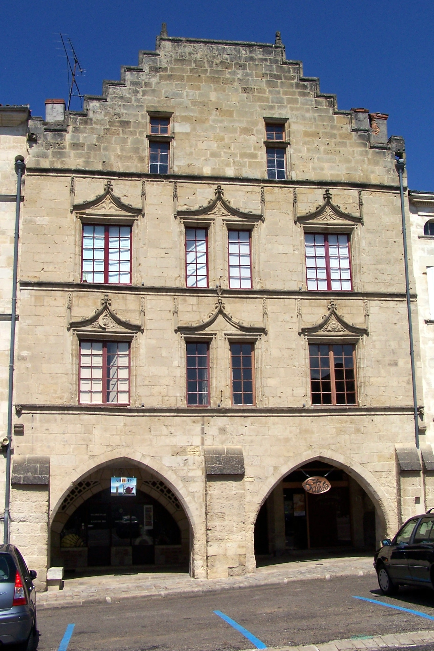 House of the Astronomer in Bazas (Gironde, France)